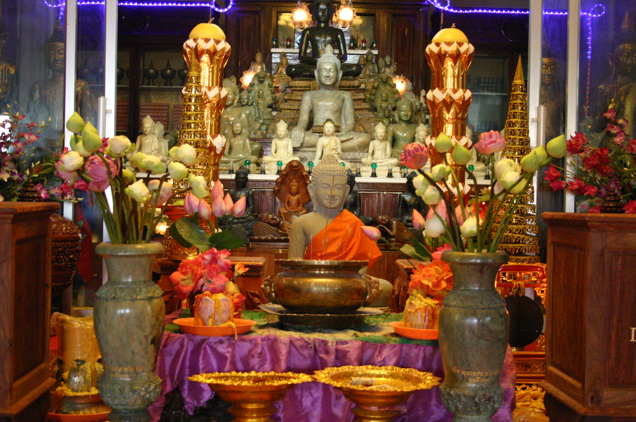 Buddist altar in Wat Phnom, Phnom Penh